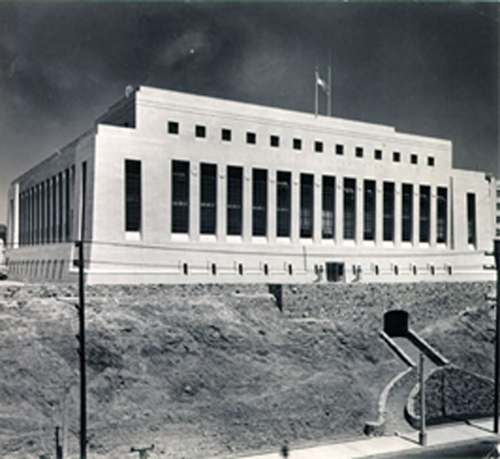 The new San Francisco Mint built in San Francisco, California in 1937.